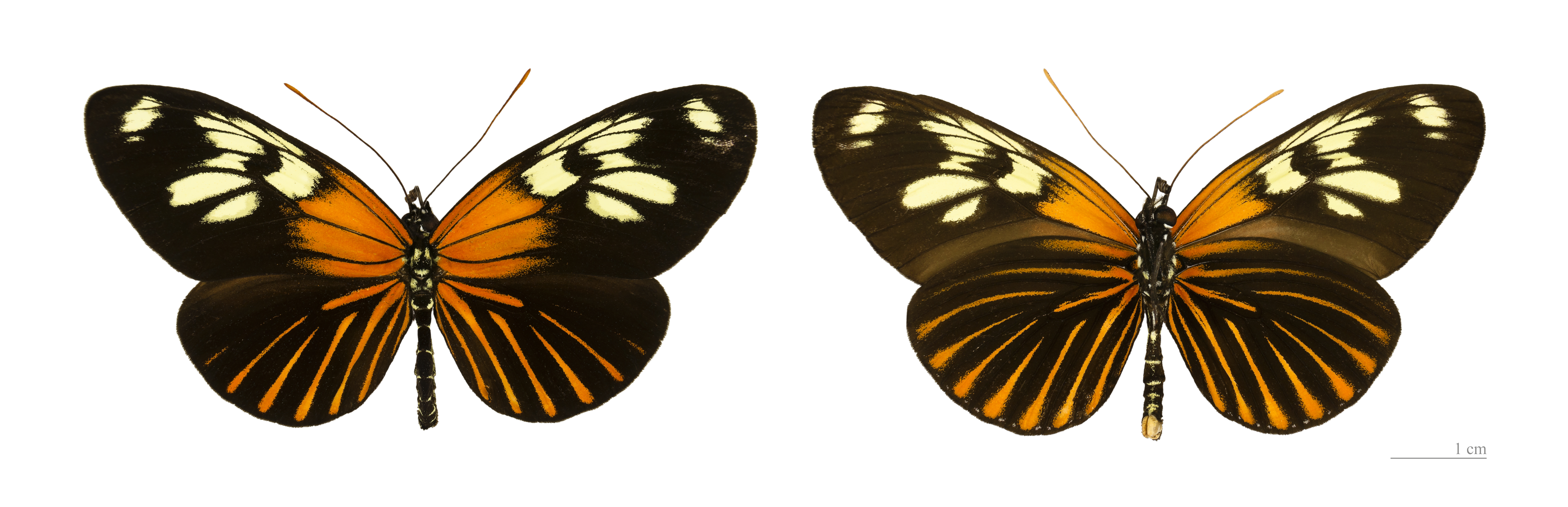 Heliconius xanthocles - Two views of same specimen